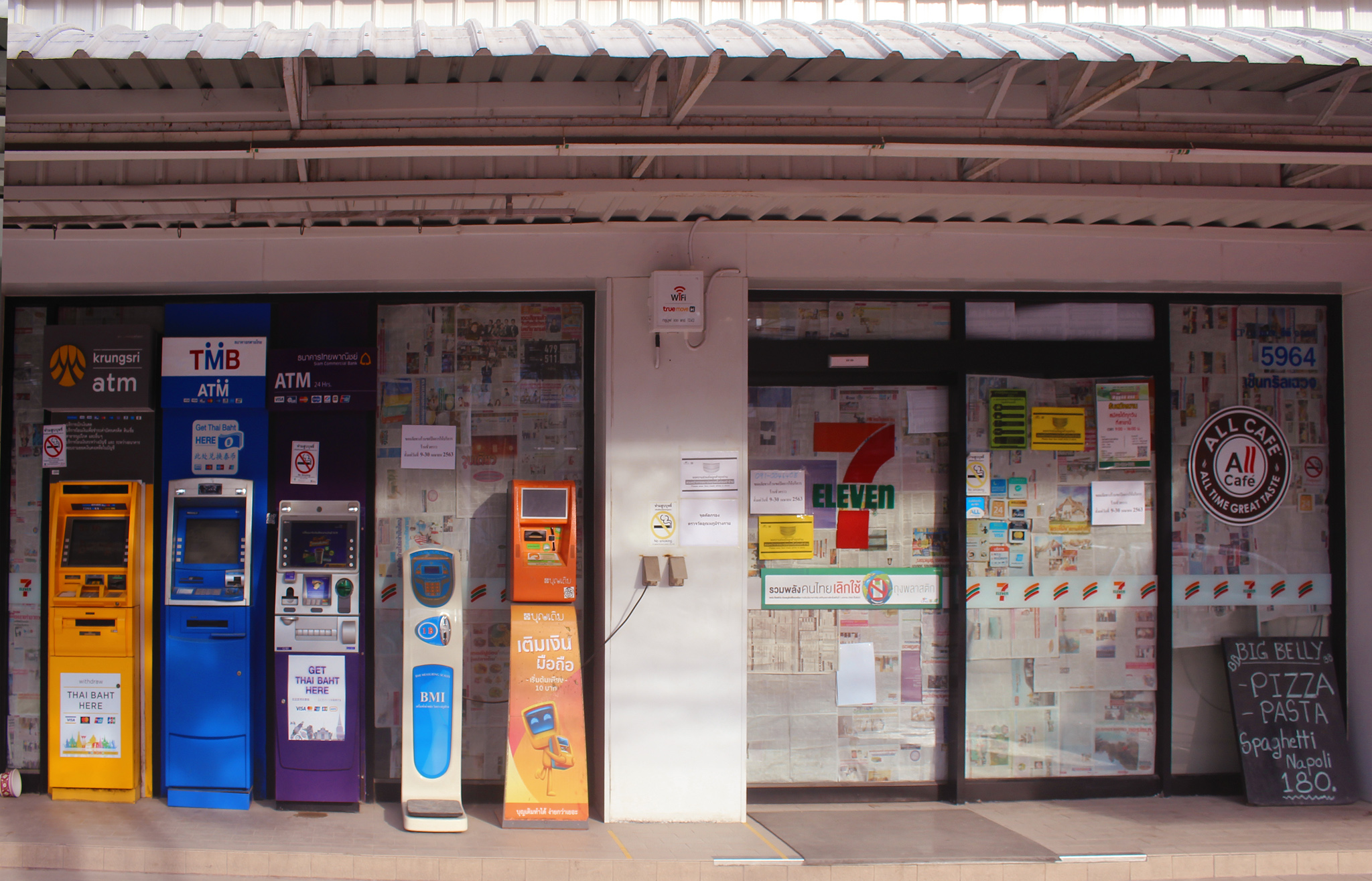 7-Eleven shop closed due to COVID-19 lockdown, the sign says it's temporary closed from 9th to 30th April, 2563 (Thai year that equals 2020).